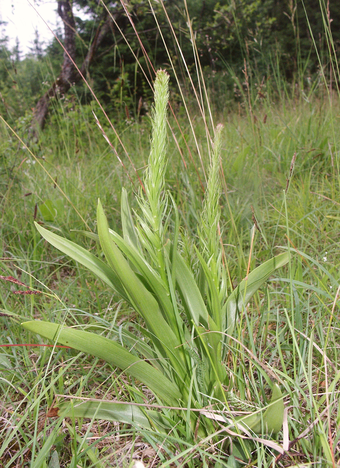 Gymnadenia conopsea, plant - monstrosity Germany - Schwäbische Alb